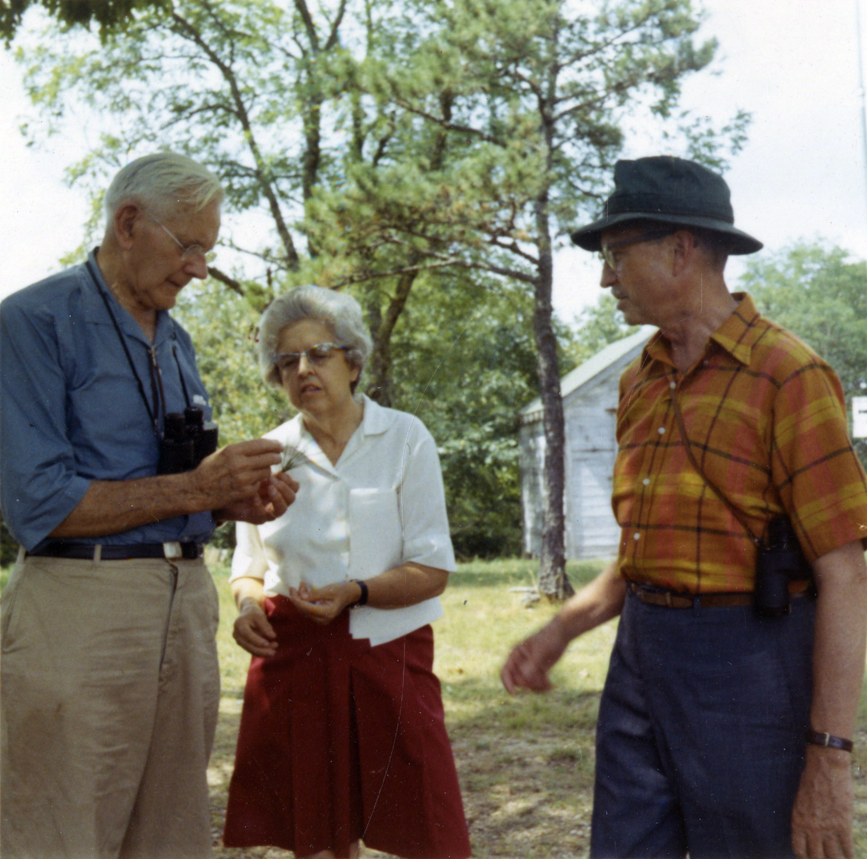 Alexander Wetmore (1886-1978), Annie Beatrice van der Biest Thielan Wetmore (1910-1997), and John Warren Aldrich (1906-1995) on a field trip during the 1969 American Ornithologists' Union Meeting, Fayetteville, Arkansas. "Bea" Wetmore worked as a secretary and translator for various entities of the Netherlands Government and the World Health Organization. After marrying Alexander Wetmore (sixth Smithsonian Secretary) in 1953, she joined him on most of his collecting expeditions to Panama and the Dutch West Indies and assisted him in his numerous publications in ornithology